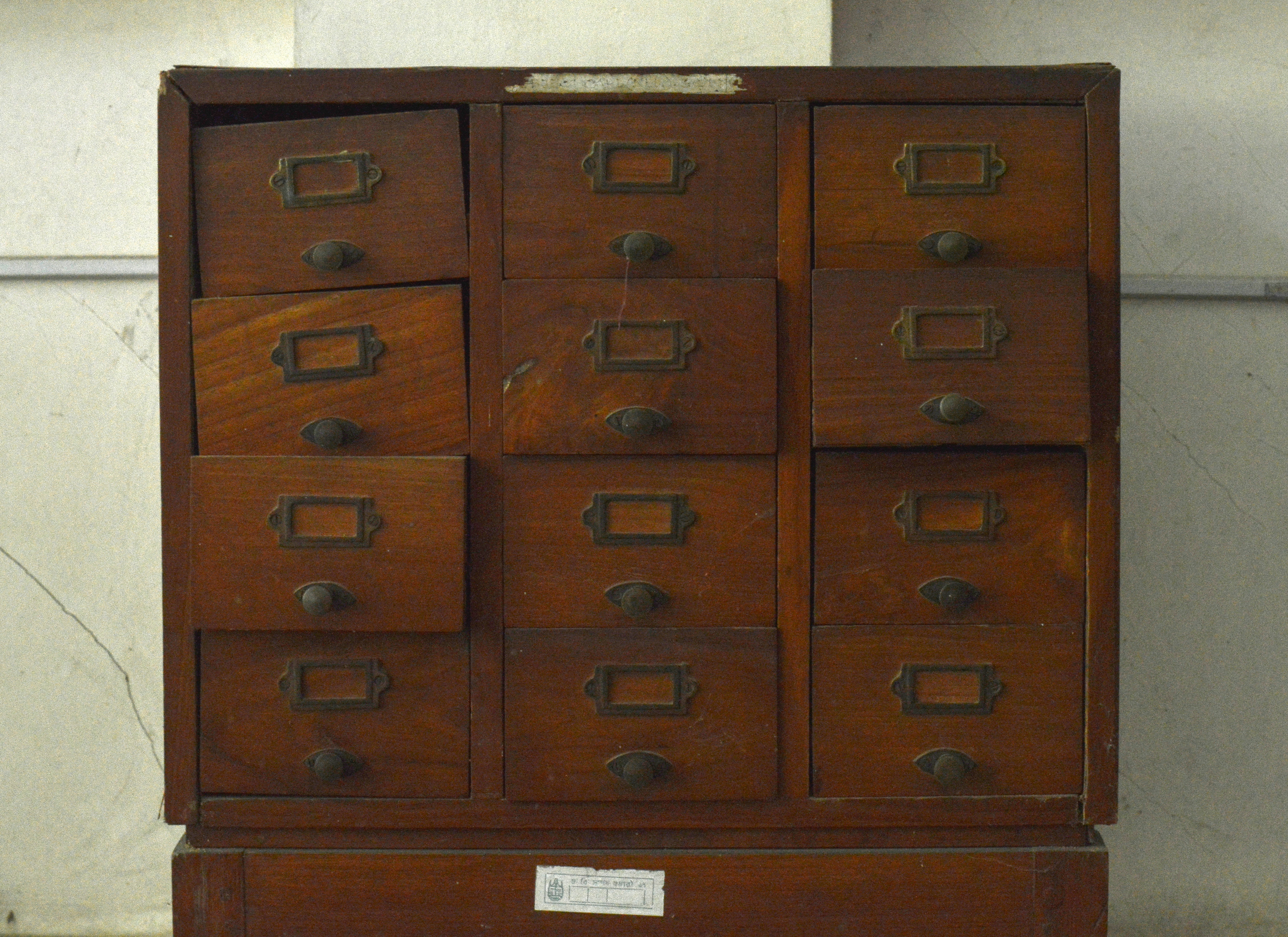 Book Stuck at Chittagong University Library